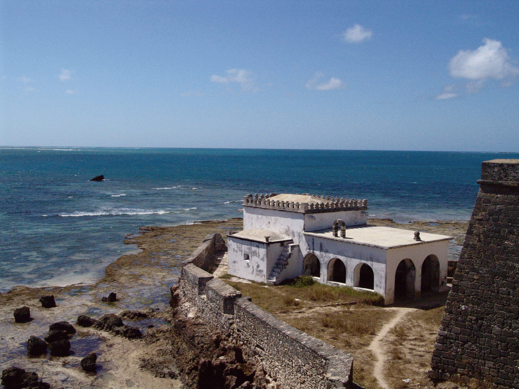 Full View of Nossa Senhora do Baluarte Chapel, in São Sebastião Fortres, Mozambique Island